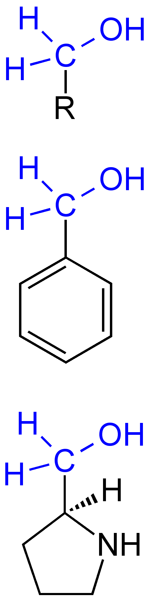 Hydroxymethyl_Group_General_Formulae